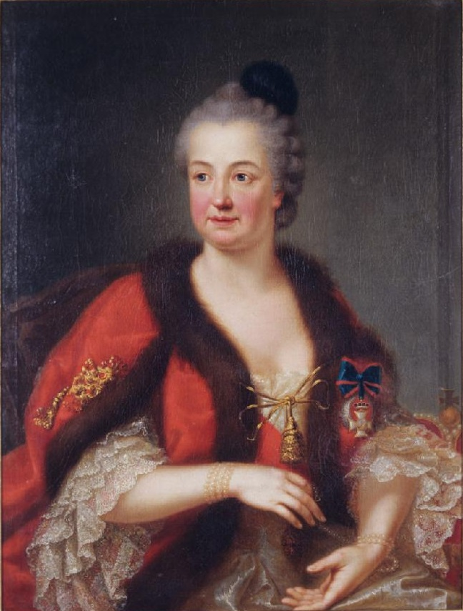 Elisabeth Augusta of Sulzbach